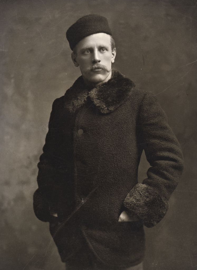 Tittel / Title: Portrett av Fridtjof Nansen Motiv / Motif: Fridtjof Nansen i frakk med pelskrave og mansjetter. På hodet har han en kalott. Dato / Date: Ca. 1897 Fotograf / Photographer: Bliss Bros Biography of the Bliss Brothers (Buffalo, NY) Sted / Place: USA, New York, Buffalo Eier / Owner Institution: Nasjonalbiblioteket / National Library of Norway Lenke / Link: Bildesignatur / Image Number: no-nb_bldsa_q1a003